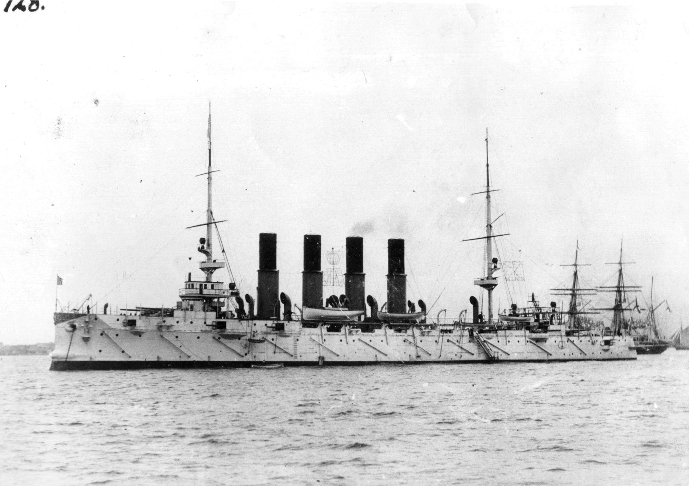 Imperial Russian cruiser Varyag, May 1901.